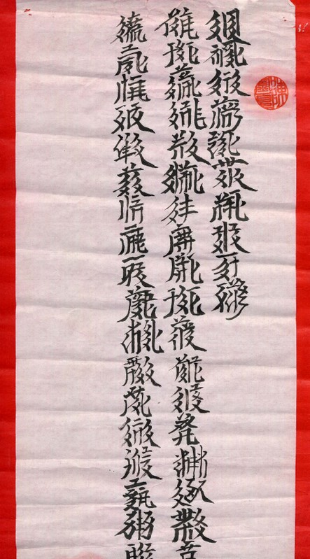 Tangut script as produced from Kim-Ha Albert. (陳金夏自己用毛筆作品的西夏文。)